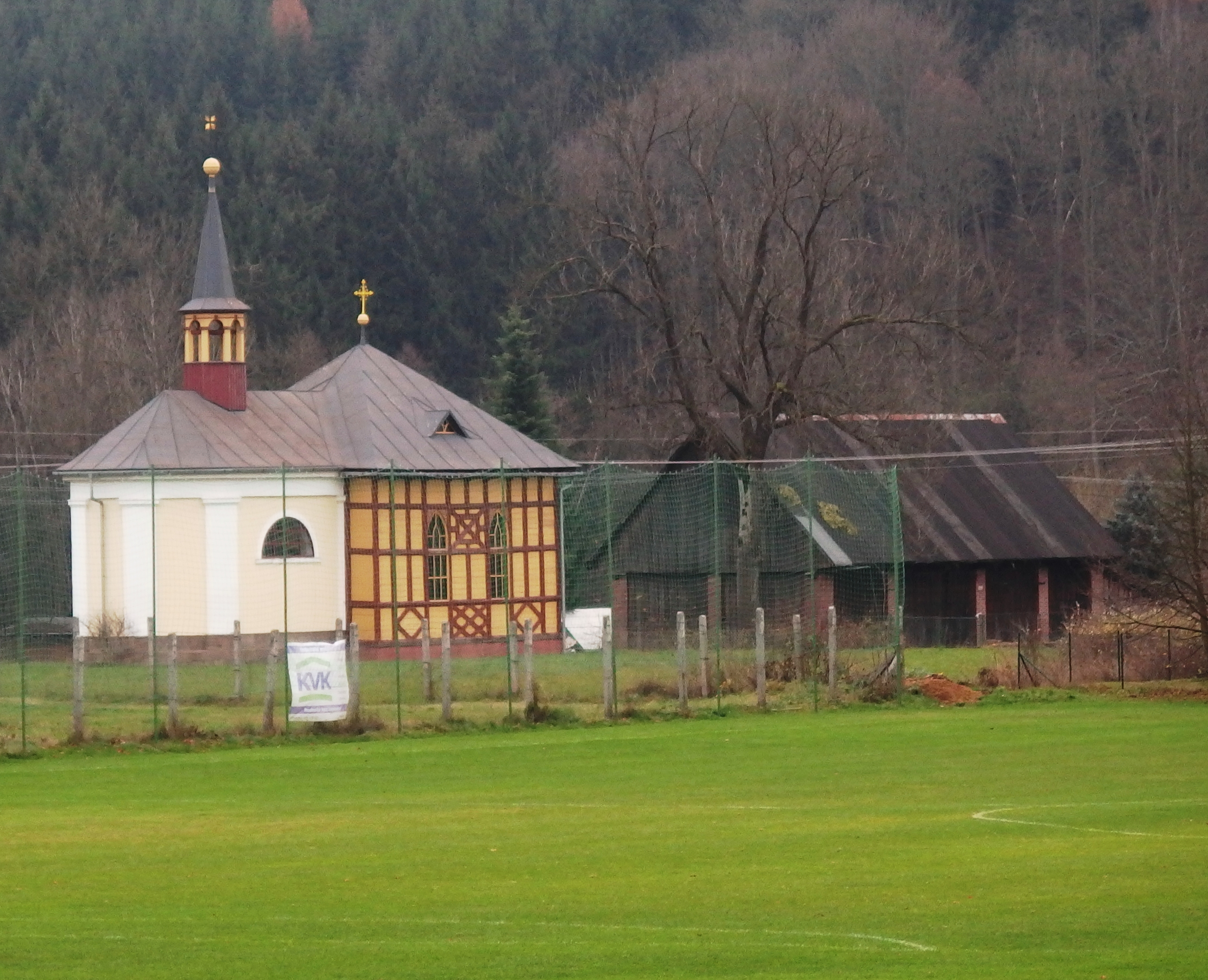 Kunčice nad Labem, Trutnov District, Czech Republic.